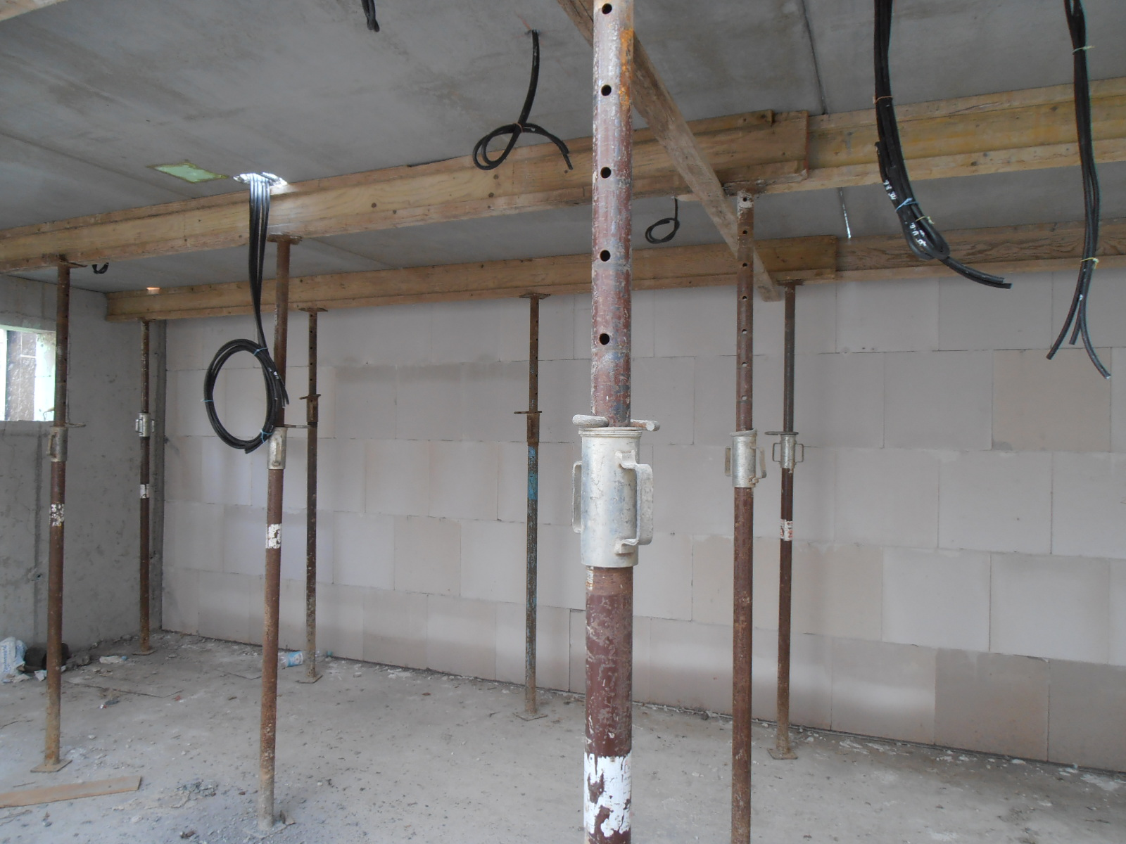 Supported concrete ceiling